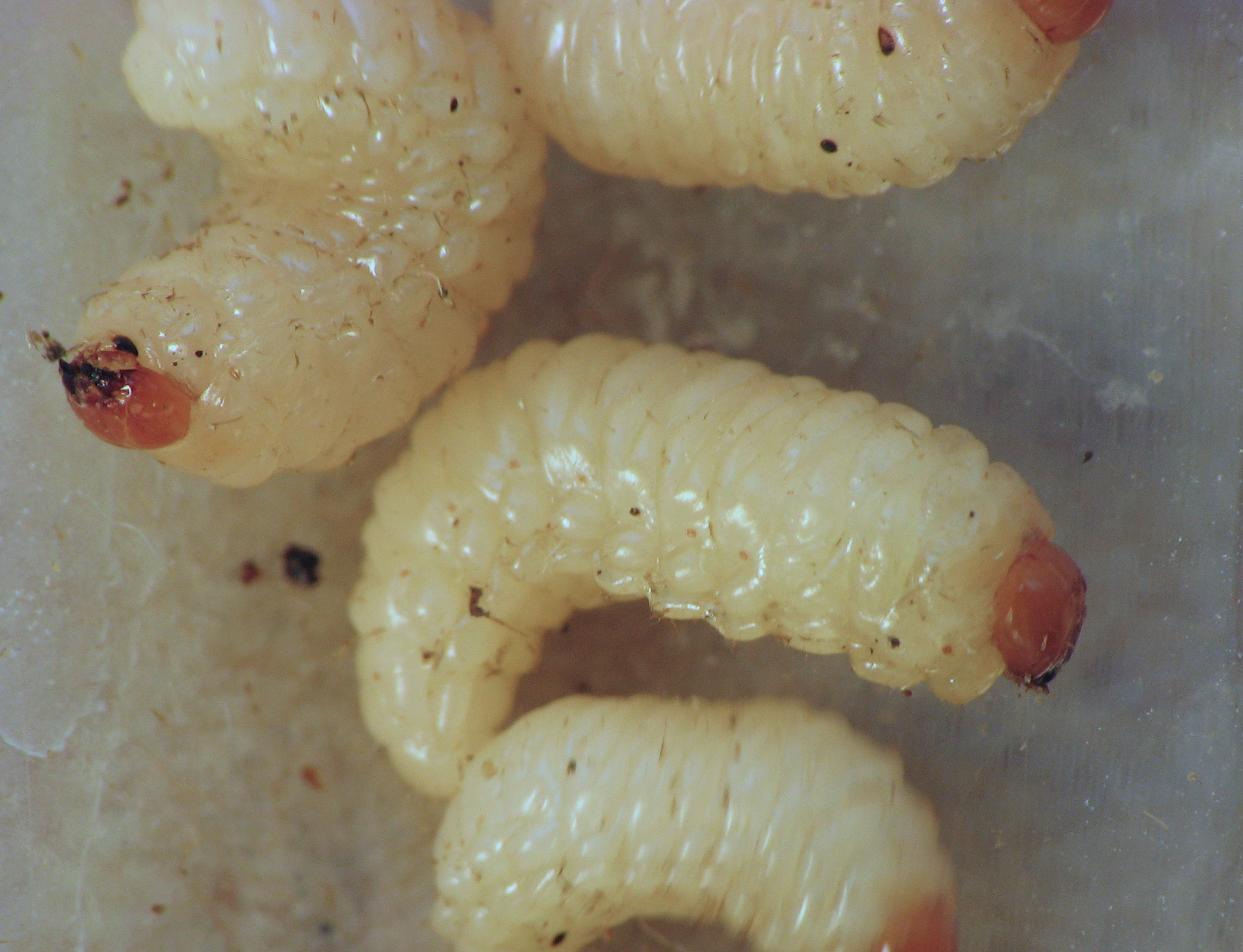 Larva of nut weevil, Curculio (probably C. sayi), from Chinese chestnut acorn. Pennypack Restoration Trust, Montgomery County, Pennsylvania, USA.